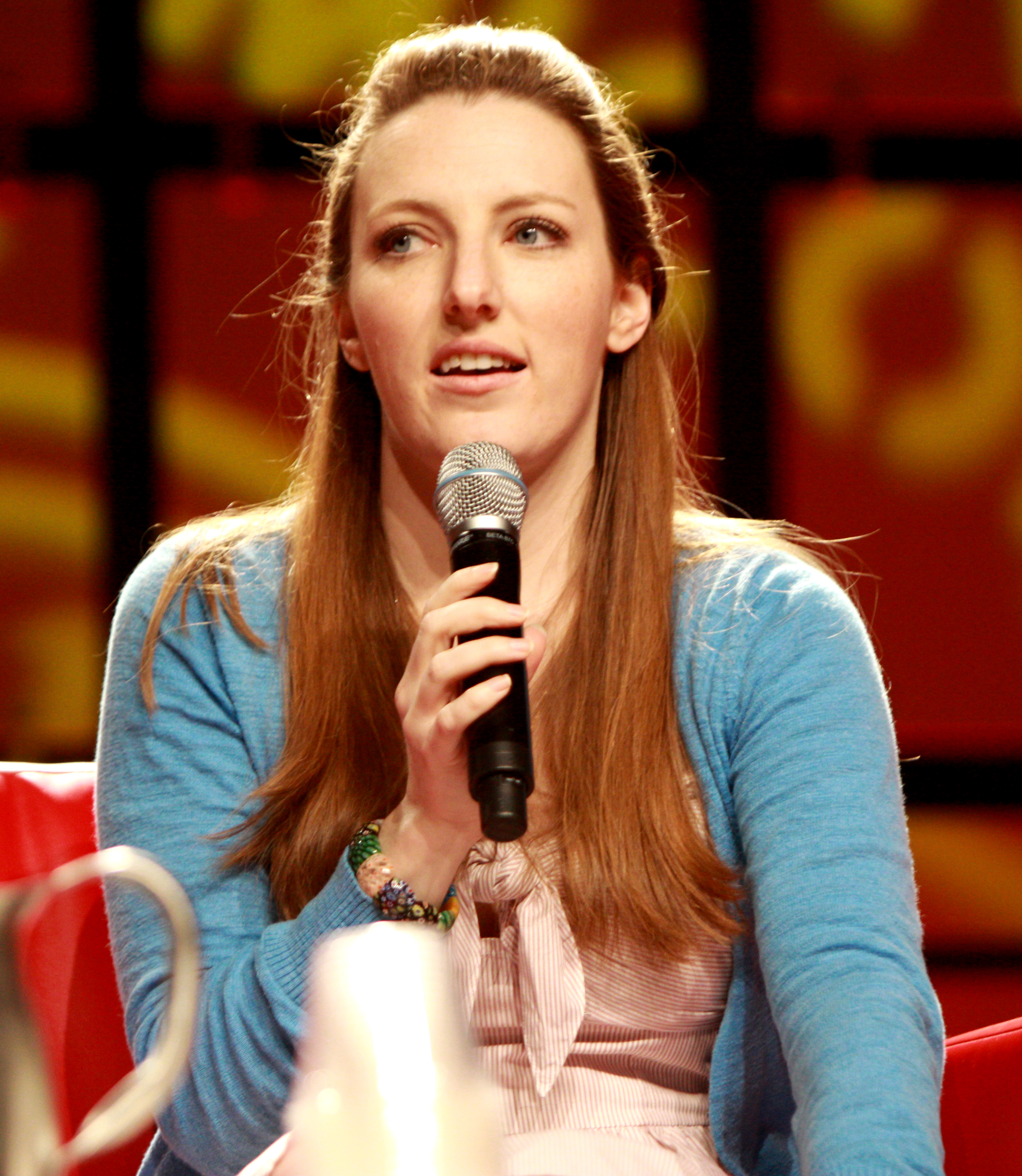 Caitlin Glass at the 2013 Phoenix Comicon in Phoenix, Arizona.